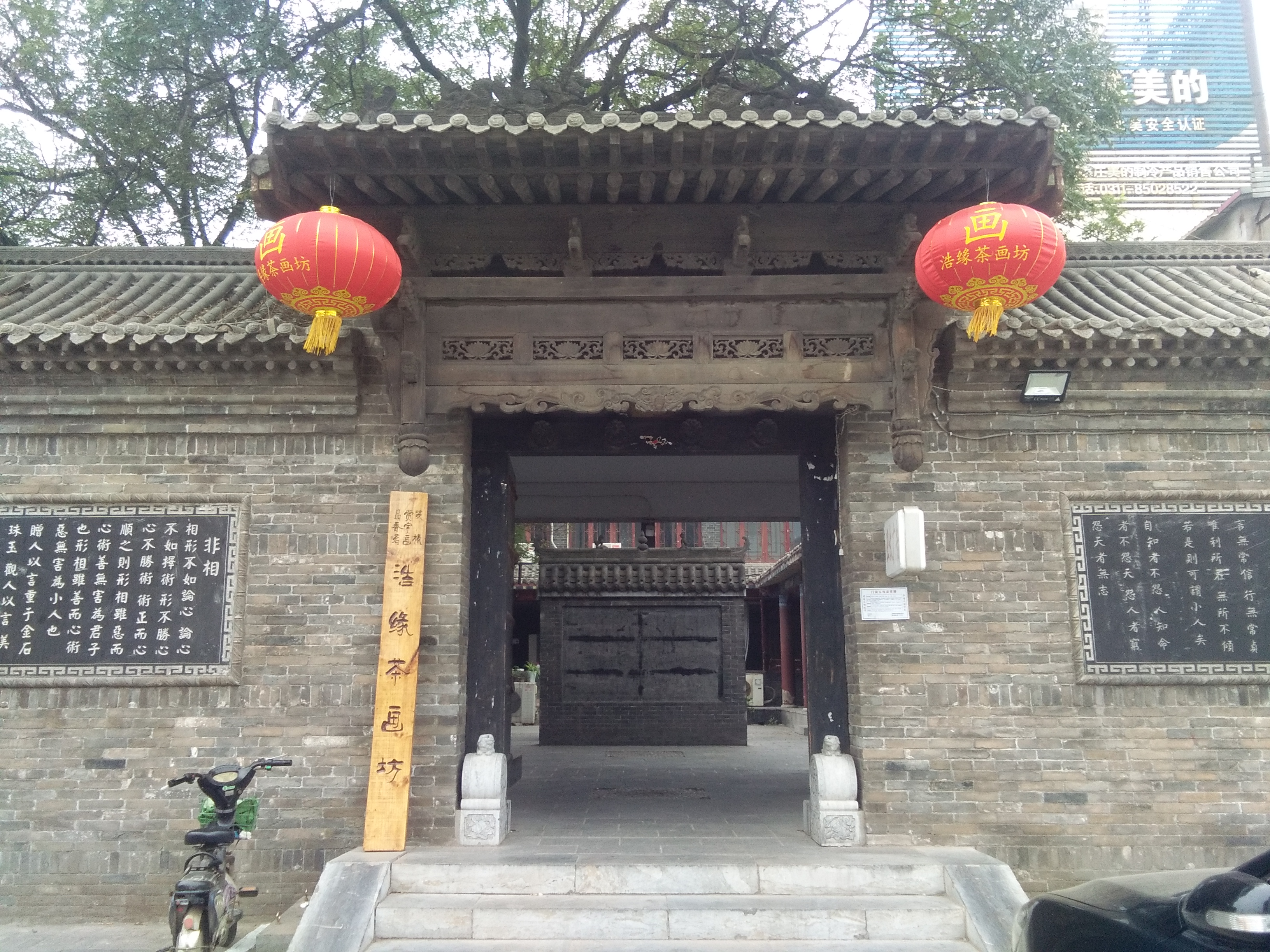 Hanshanshuyuan in Handan Old Town，Was built in the Qing Dynasty Qianlong years.